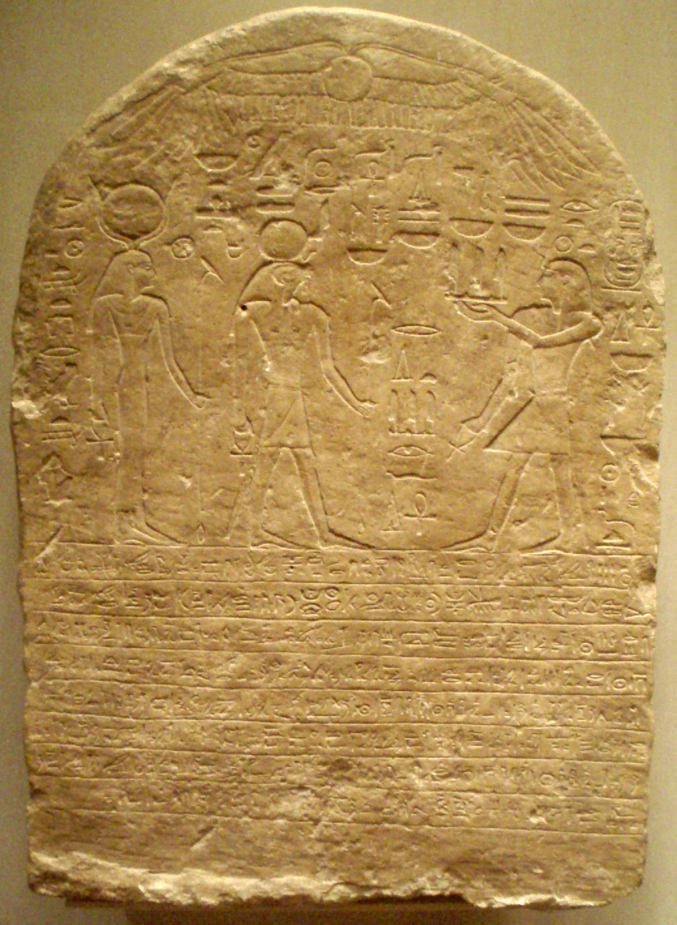 Osorkon I donation stela, from the 22nd dynasty, circa 924-889 B.C. The stela depicts the pharaoh offering the hieroglyph for "field" to the gods Re-Horakhty and Nebet-Hetepet.